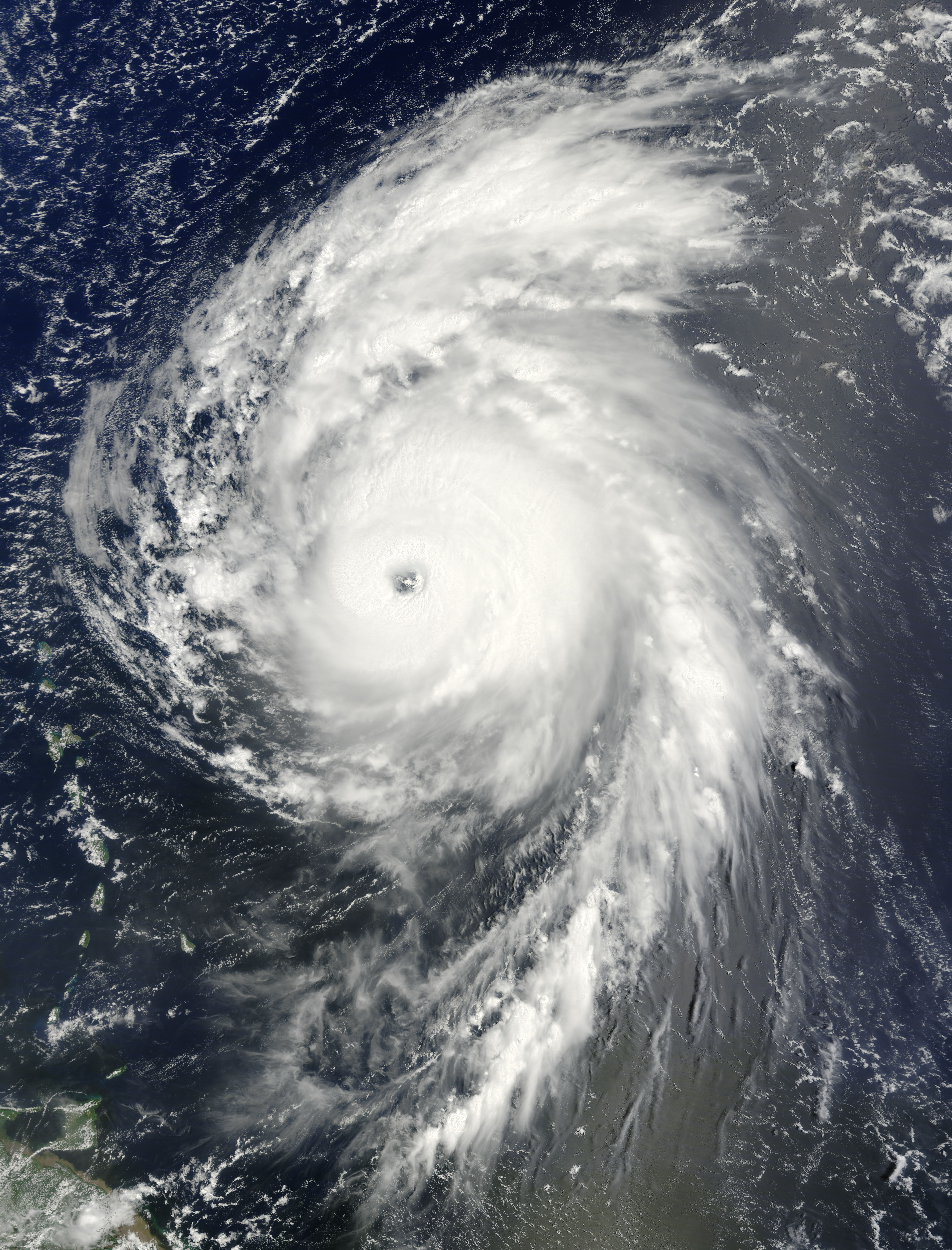 Hurricane Bill as a Category 4 storm